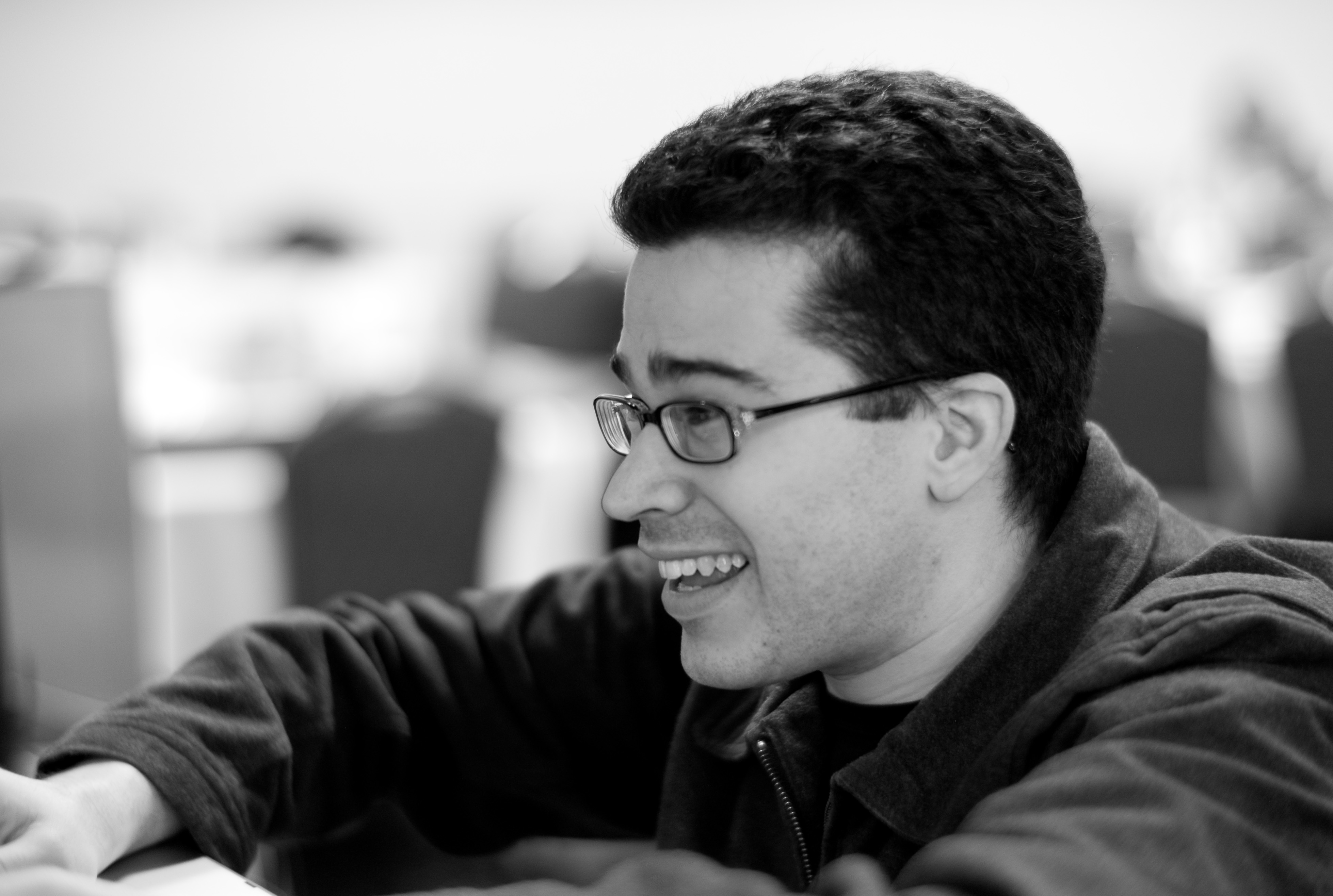 Chris Pirillo